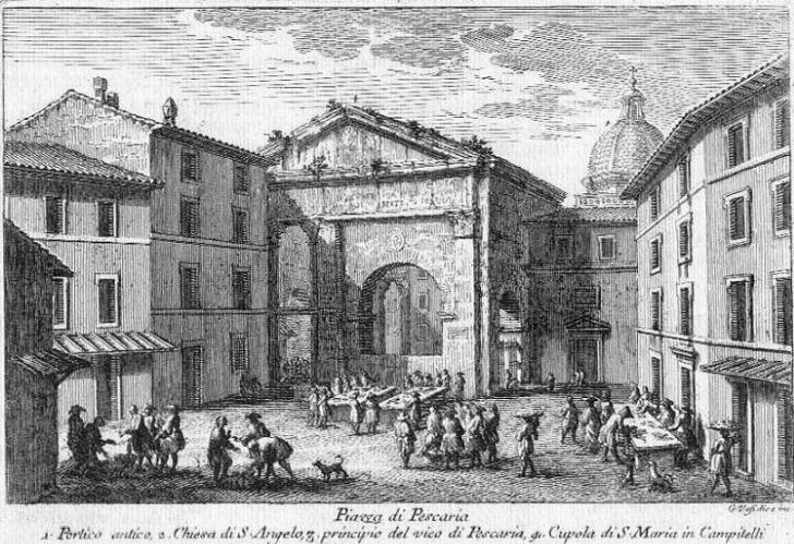 1) Ancient Portico; 2) S. Angelo; 3) Vico (narrow street) di Pescaria; 4) Dome of S. Maria in Campitelli.